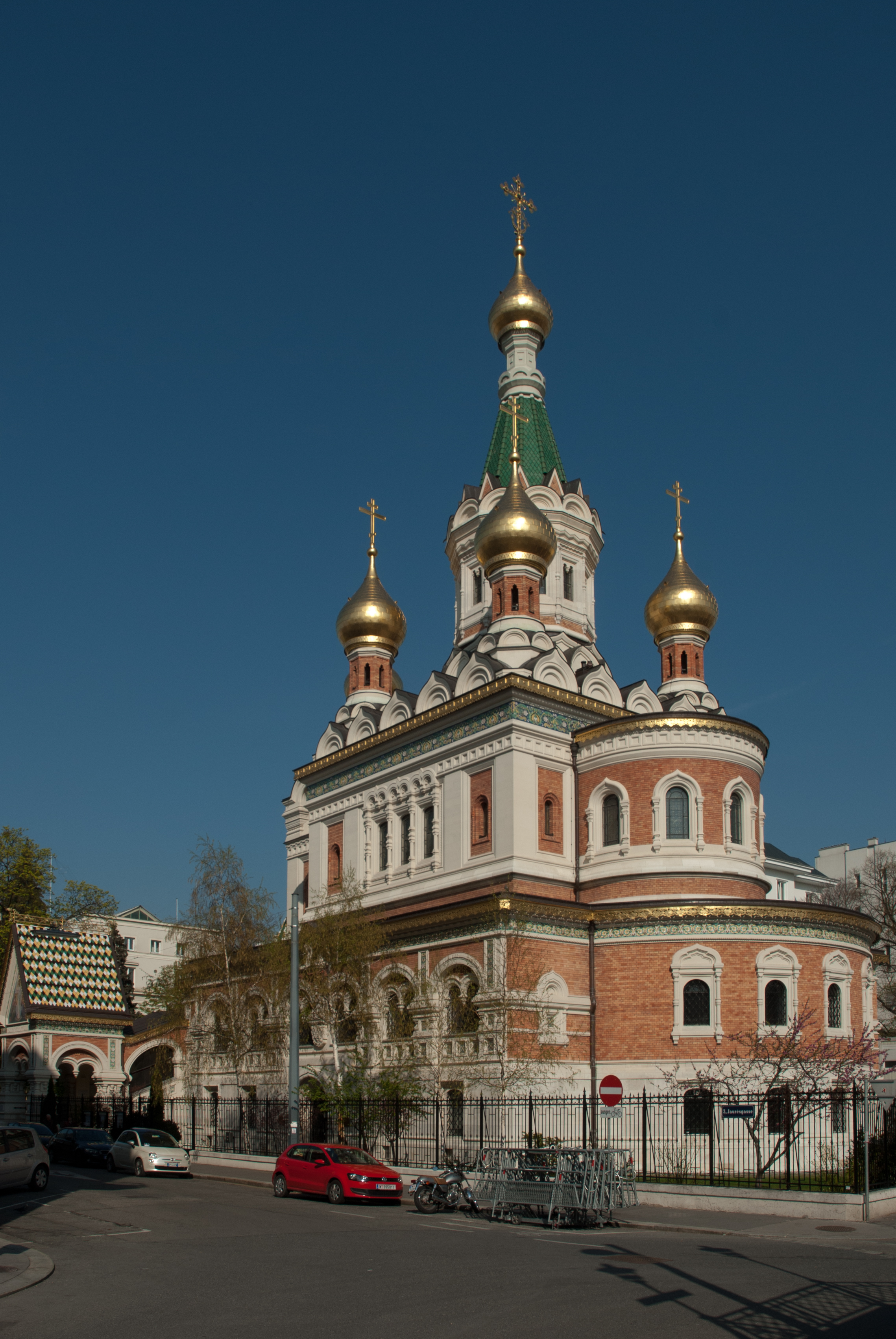 Russian orthodox cathedral church in Vienna